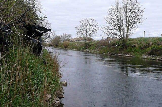 River Clare (Abhainn an Chláir) The river flows through secluded countryside to the east of Lackagh.